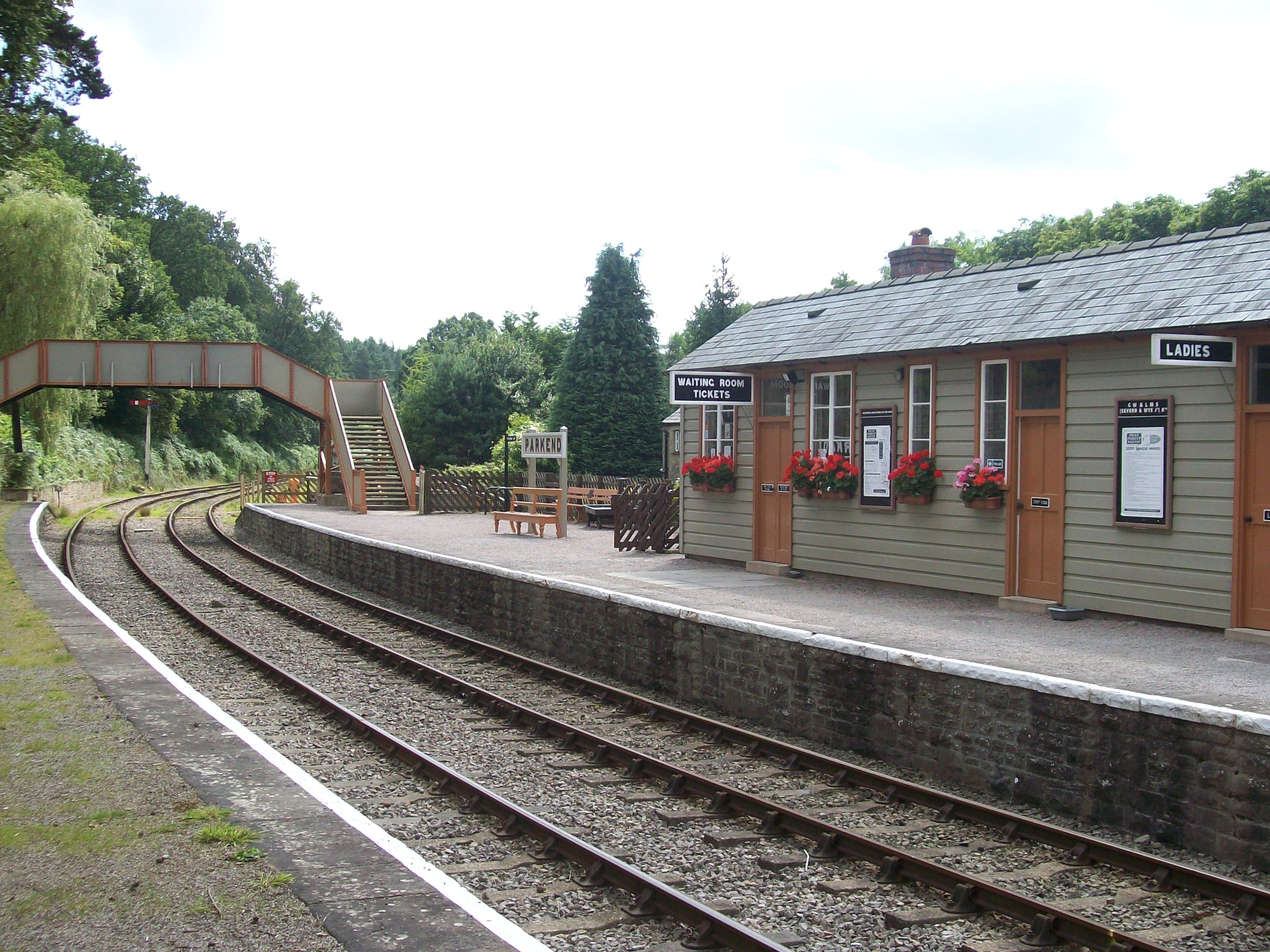 View of Parkend Steam Railway Station